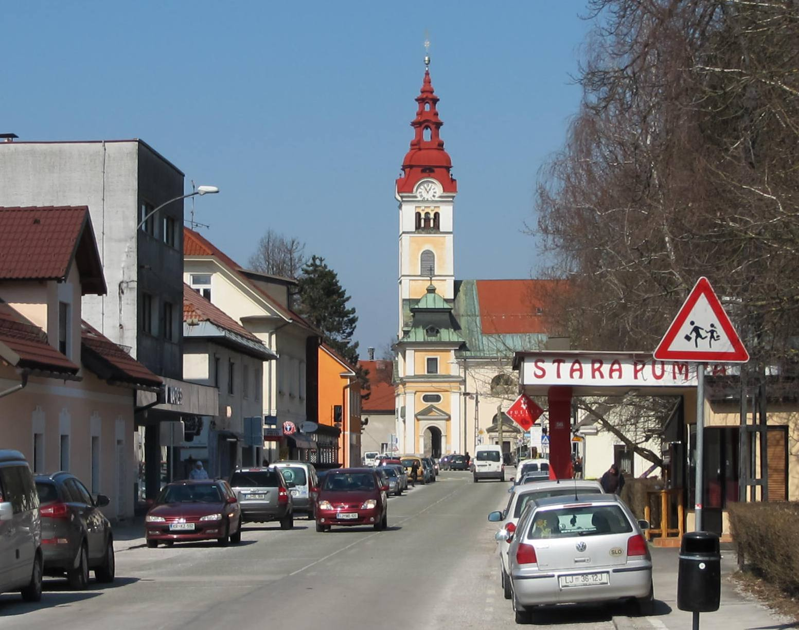 Scene on Prušnik Street (Prušnikova ulica), the main street in Šentvid, a formerly independent village annexed to the city of Ljubljana in 1974.